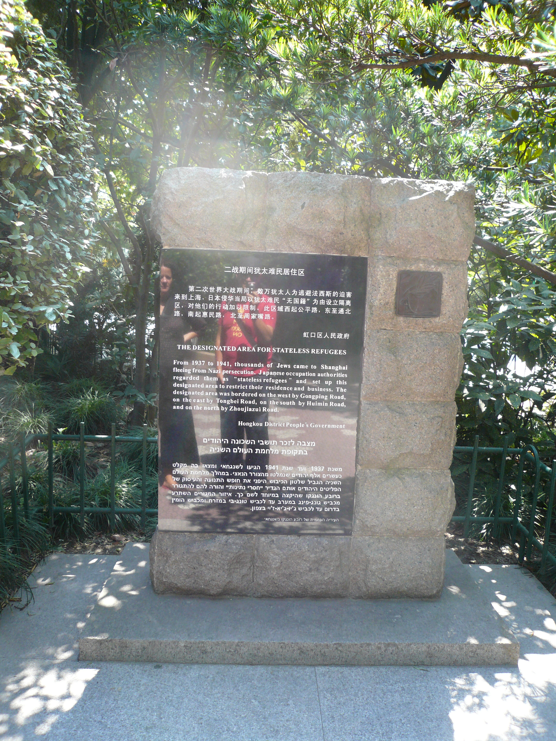 Jewish Ghetto Memorial, Shanghai, China